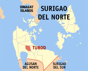 Map of the Surigao del Norte showing the location of Tubod